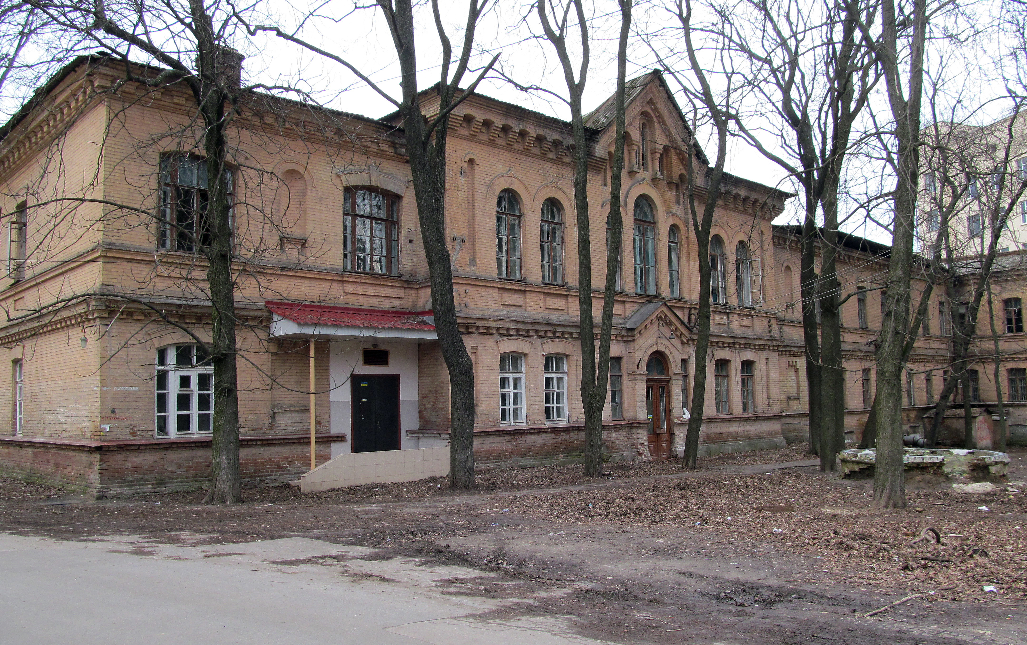 Marshala Bazhanova street, 11, Kharkiv, Ukraine. Abandoned TB Dispensary.